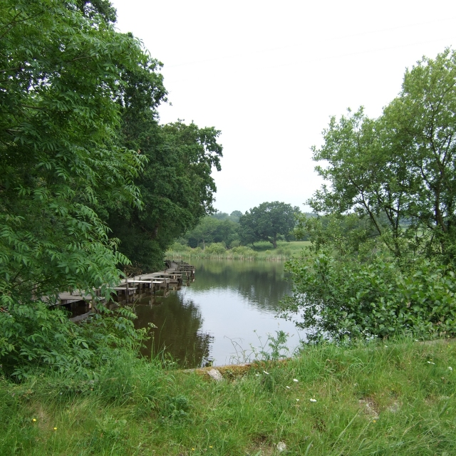 Pond at Warren Mill Farm Park, nr Cowbridge About 200 years ago a small tributary of the River Ely was dammed to provide a head of water for powering Warren Mill. Time and nature combined to silt the 4-acre pond to an average depth of 3-4ft and gave it a nice muddy bottom with few weeds. A heavy stock of carp and tench ensure that the water is nearly always well coloured. The carp come in all sizes but some can exceed 16lbs or so and quite a few of the bronze tench here have grown to over 5lbs just like the perch and bronze bream. The masses of roach and rudd contain many individuals well over 2lbs. On the south bank a sturdy board-walk runs the length of the pool under thick trees, a totally different environment to most of the rest of the perimeter, which is open with only scattered trees and shelves gently to the water’s edge. The dam wall alongside the road is not easily fished but there are 40 informal pegs and all water is within reach. Recent improvements have included an extension of the water into a former marshy area, creating an island and a canal-like stretch.